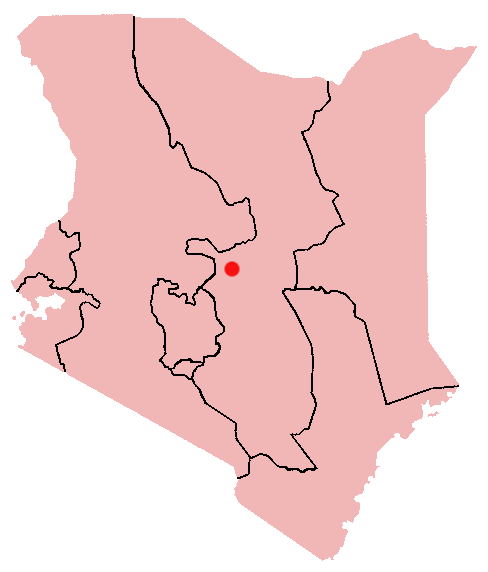 Isiolo, Kenya Location Map; created with the GIMP. Made by User:Acntx.